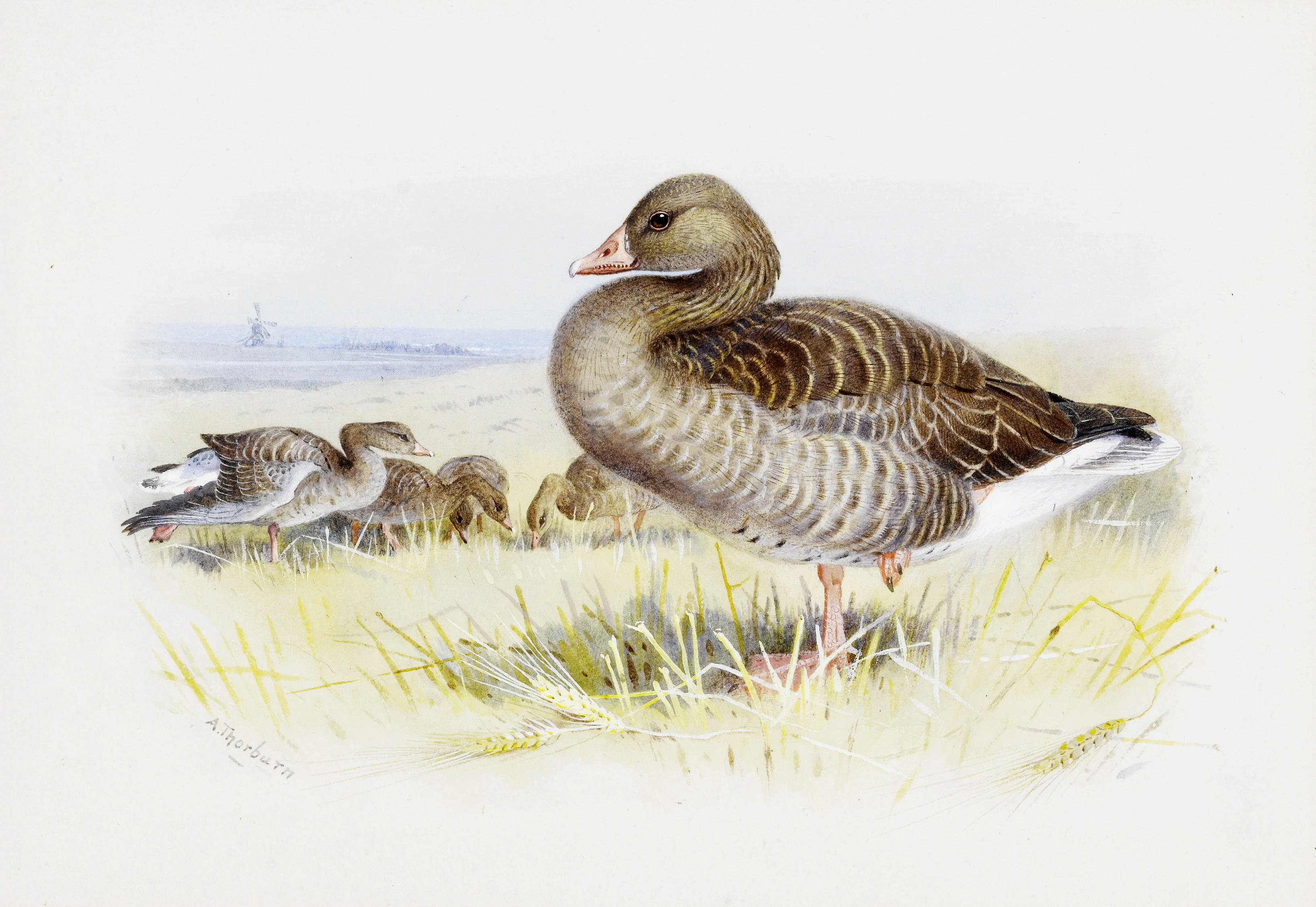 Greylag goose. Watercolour with bodycolour, 17.5 x 25 cm